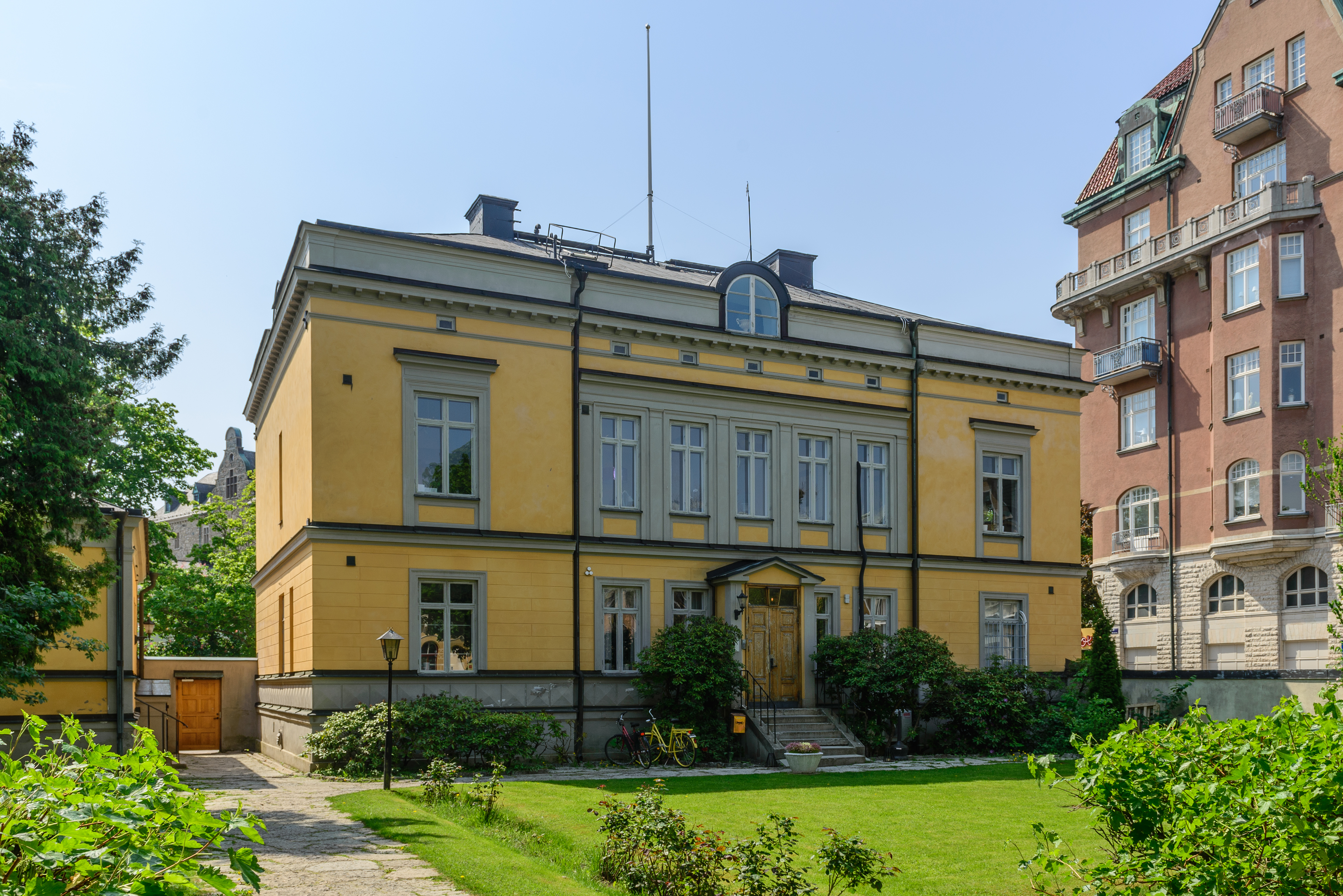 The hussar regiment's former officer's building, Örebro, Sweden